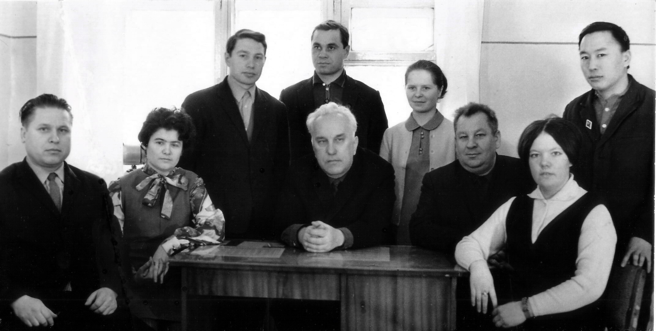 Aleksander Adolfovich Burba with the colleagues at the Research Department of the Mednogorsk Copper and Sulfur Works (March 1971).